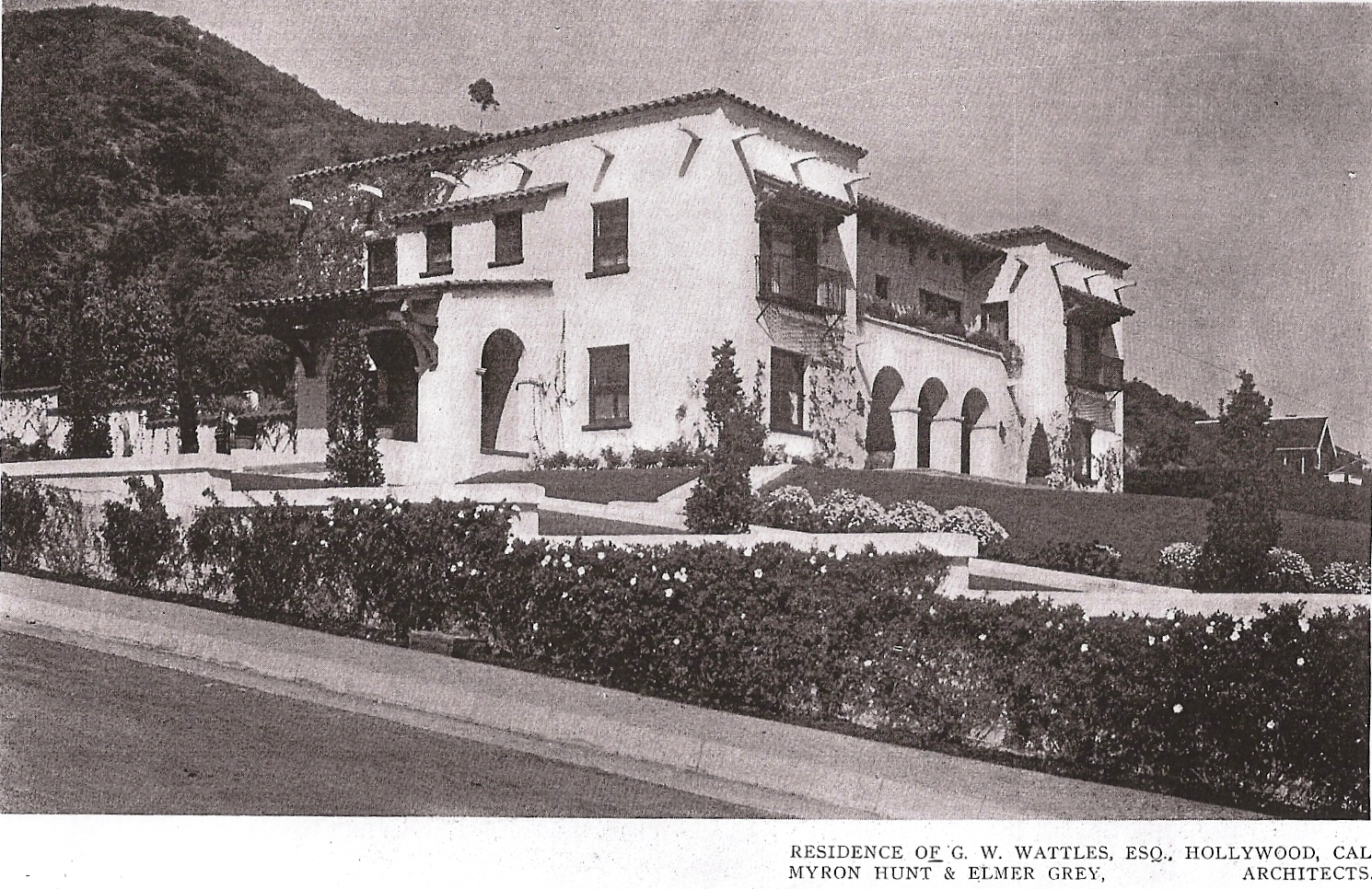 Photograph of Wattles Mansion Source=Architectural Record, Dec. 1913, p. 559 Published in the United States before 1923.